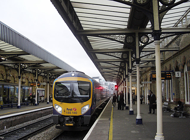 Warrington Central station The next train to arrive at platform one will be the 14:44 Trans-Pennine Express to Scarborough.